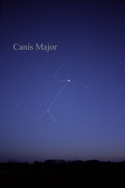 Photography of the constellation Canis Major, the big dog